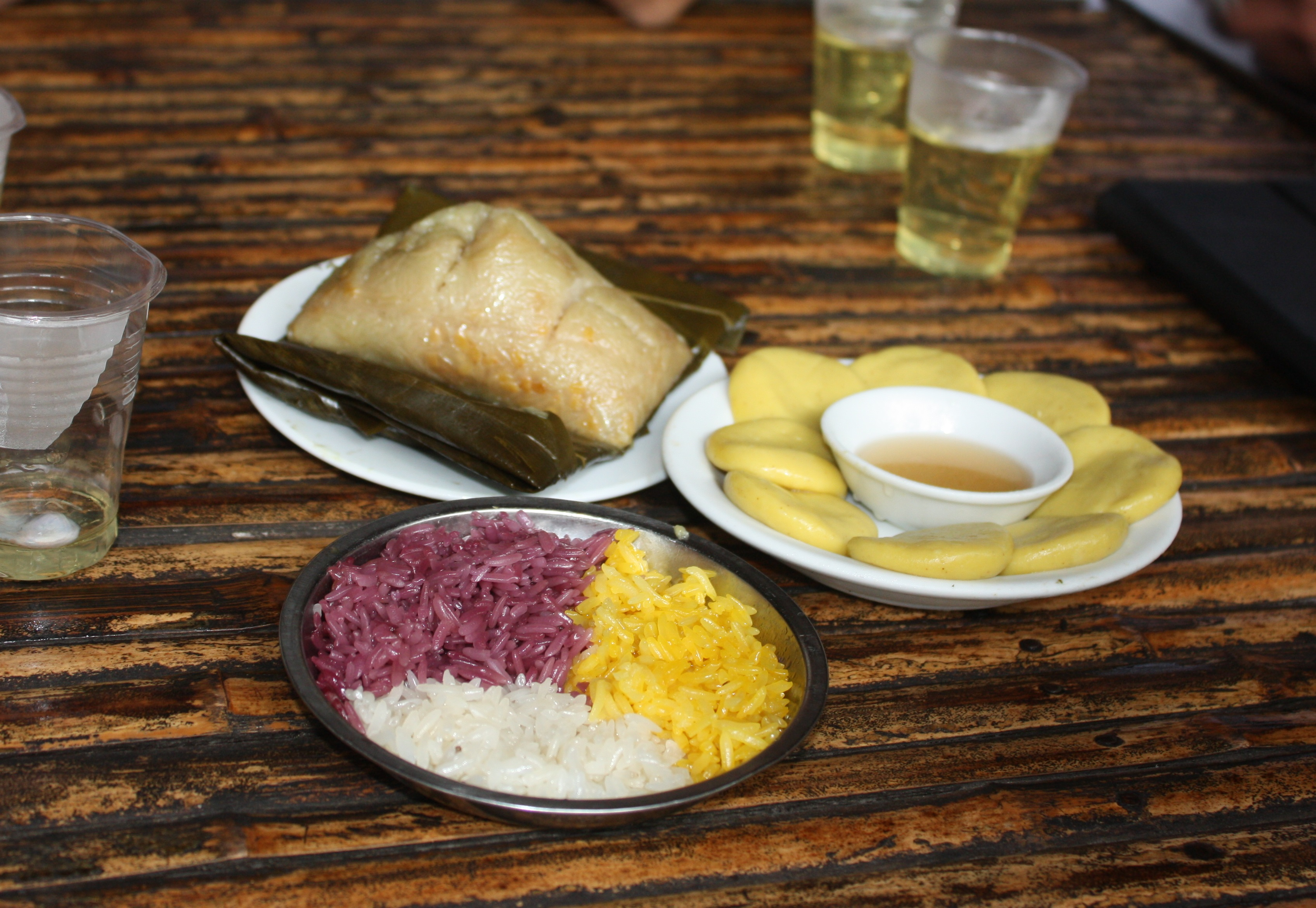 Assorted Zhuang snacks in Nanning, Guangxi.